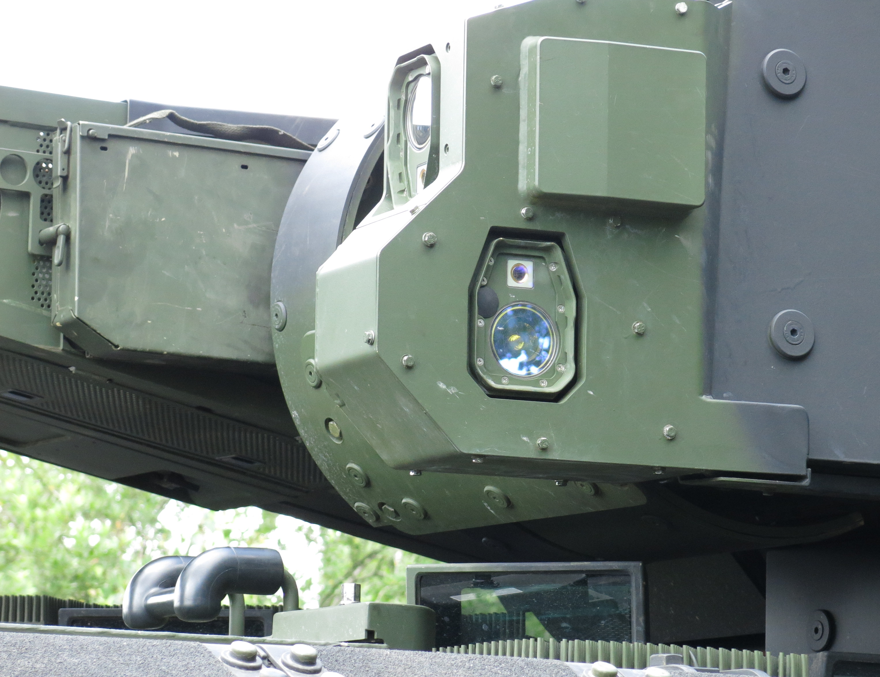 Sensors of the active protection system MUSS on Puma IFV turret.